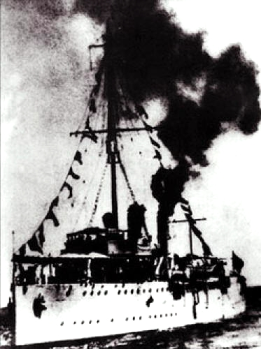 The SS Chung Shan (i.e., Zhongshan), ex-Yung Feng (i.e., Yongfeng), under steam.